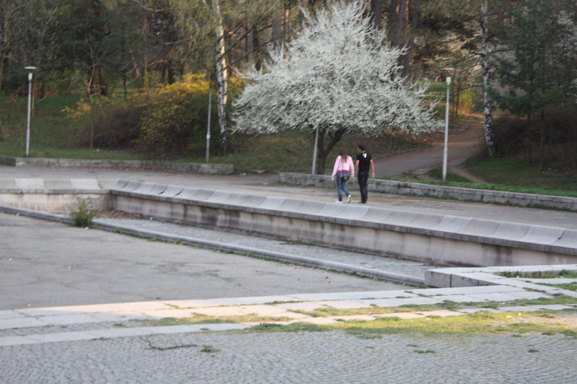 Statues and monuments in Sofia, Bulgaria